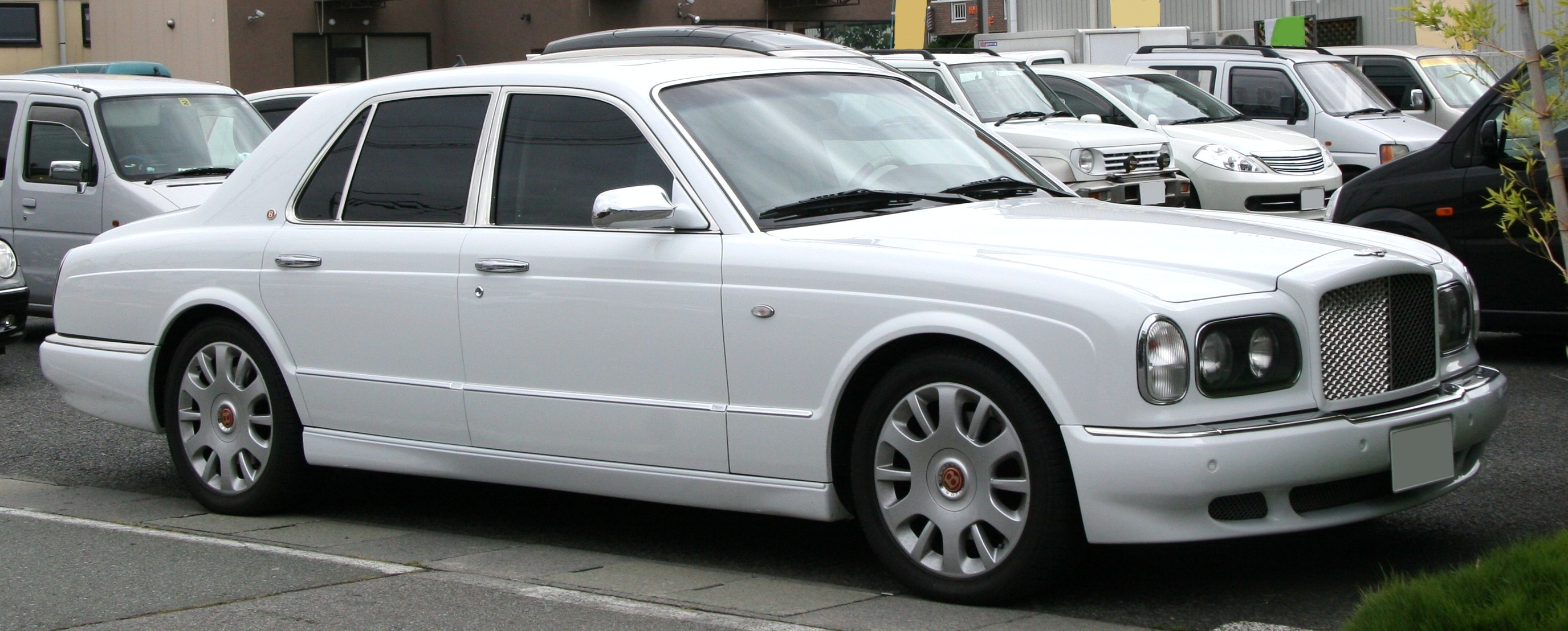 Bentley Arnage